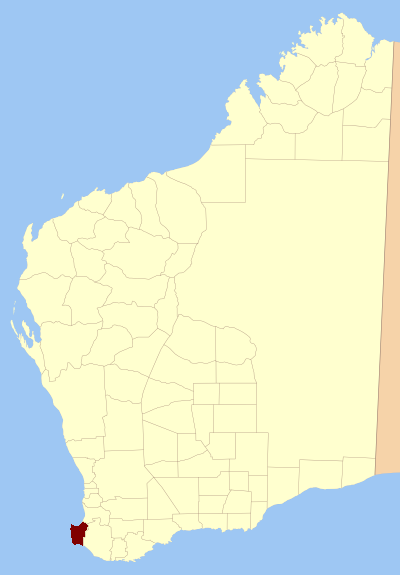 Location of the Sussex district in Western Australia, part of the Cadastral divisions of Western Australia